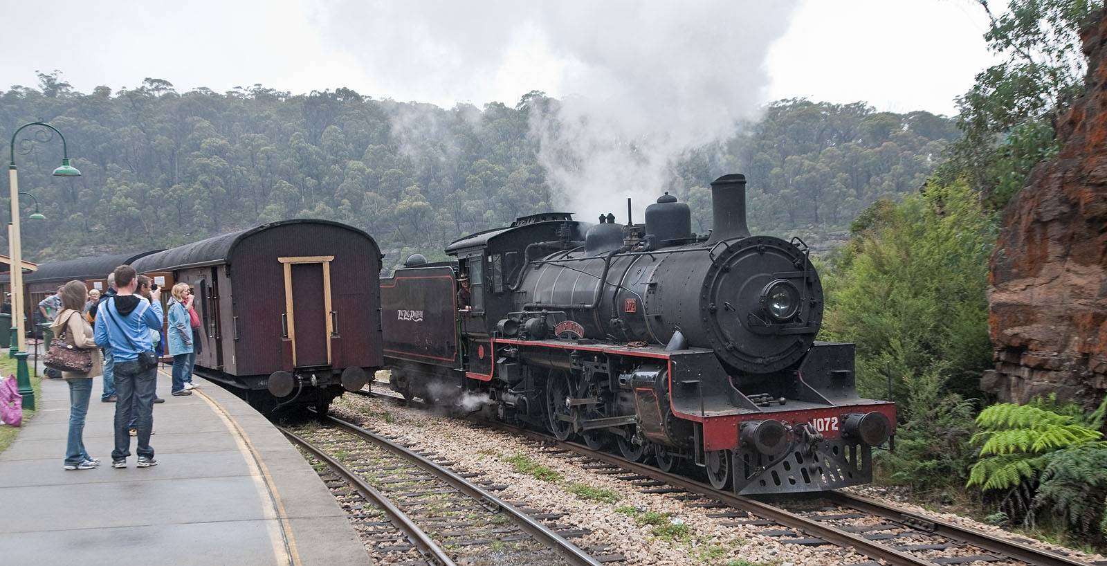 1074 at the Top Points station on the Lithgow Zig Zag railway line.